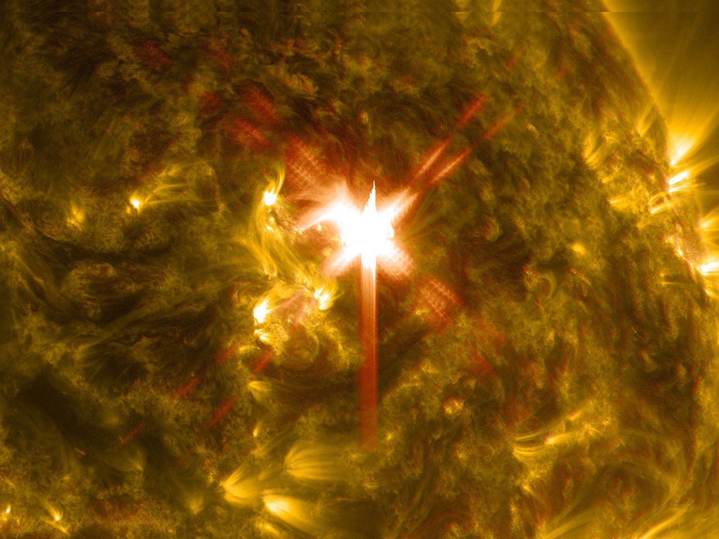 Extreme ultraviolet light streams out of an X-class solar flare as seen in this image captured on March 29, 2014, by NASA's Solar Dynamics Observatory. This image blends two wavelengths of light: 304 and 171 Angstroms, which help scientists observe the lower levels of the sun's atmosphere.